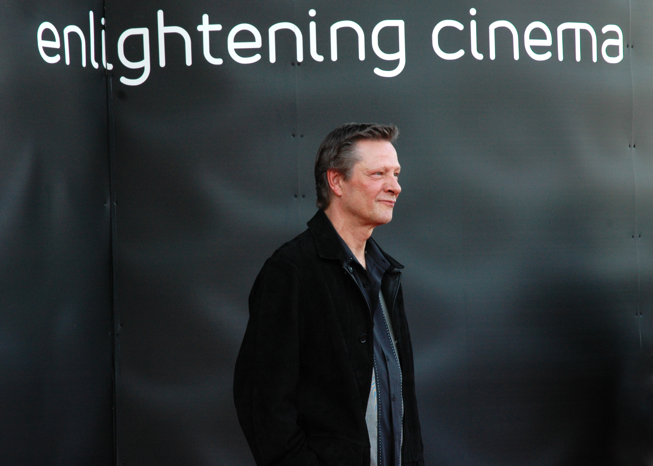 Chris Cooper